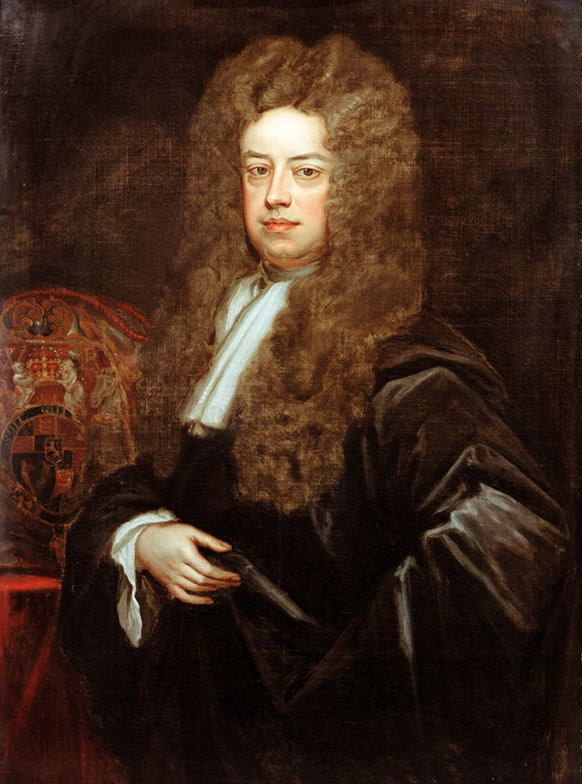 A 1690s 104 x 77.5 cm oil-on-canvas portrait painting of John Somers by Godfrey Kneller held by the Royal Society. Lord High Chancellor of England under King William III. Lord Chancellor's Purse in background showing the royal arms of King William III